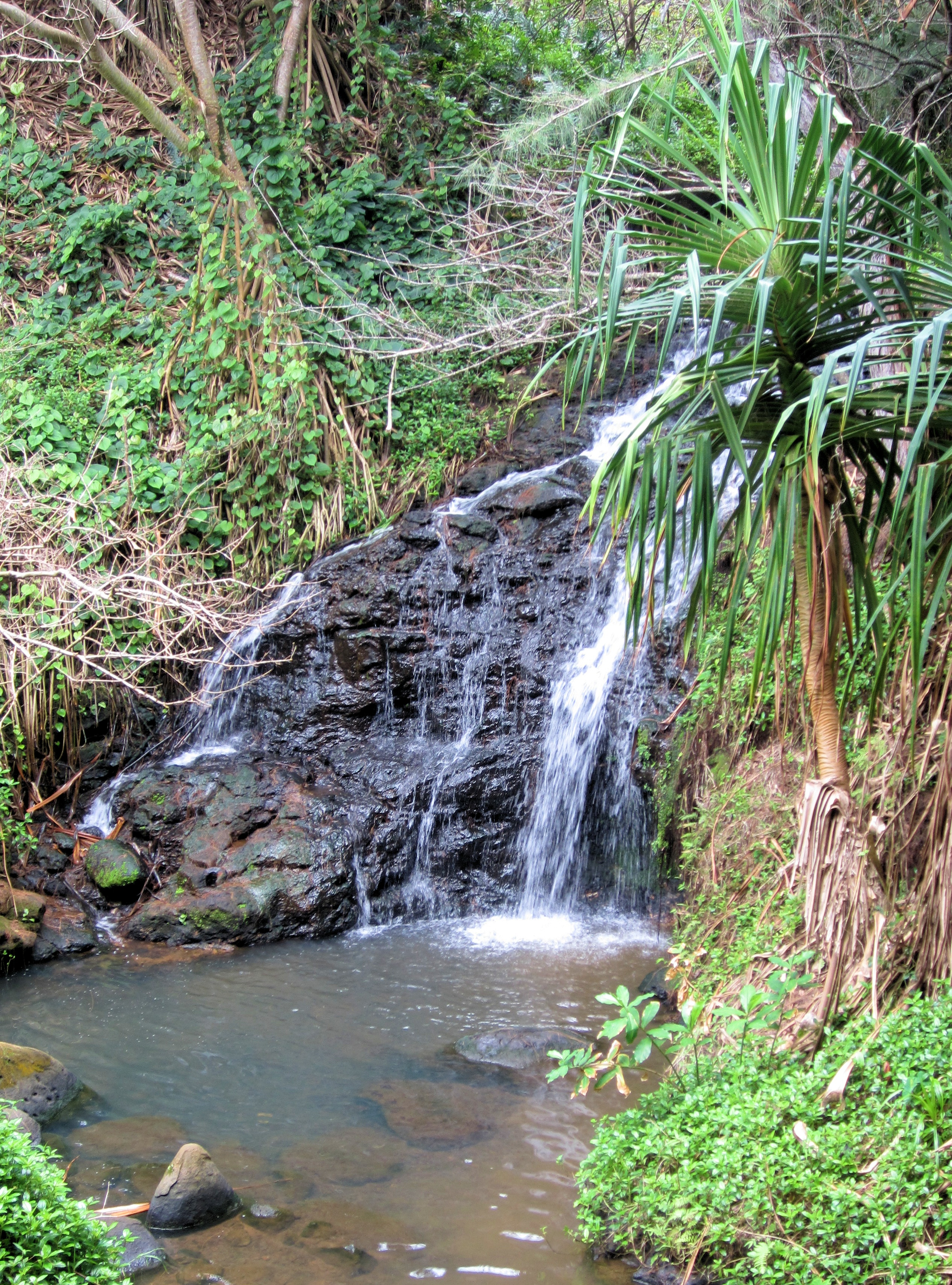 A small Waterfall on the North Shore of Kauai.